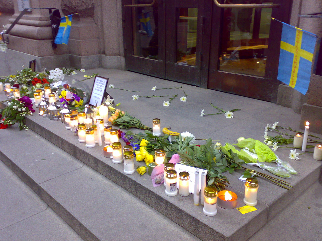 Mourning the death of privacy in Sweden at the main entrance of the parliament.